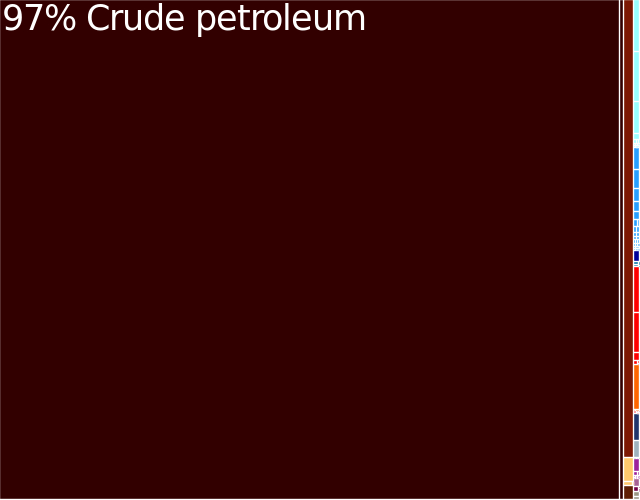 Export Trading Treemap. From MIT/Harvard Atlas of Economic Complexity